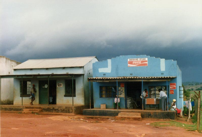 Shops in Zimbabwe. Taken and donated by user:Guinnog